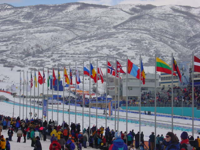 The Soldier Hollow Olympic venue during the 2002 Winter Olympics in Salt Lake City.